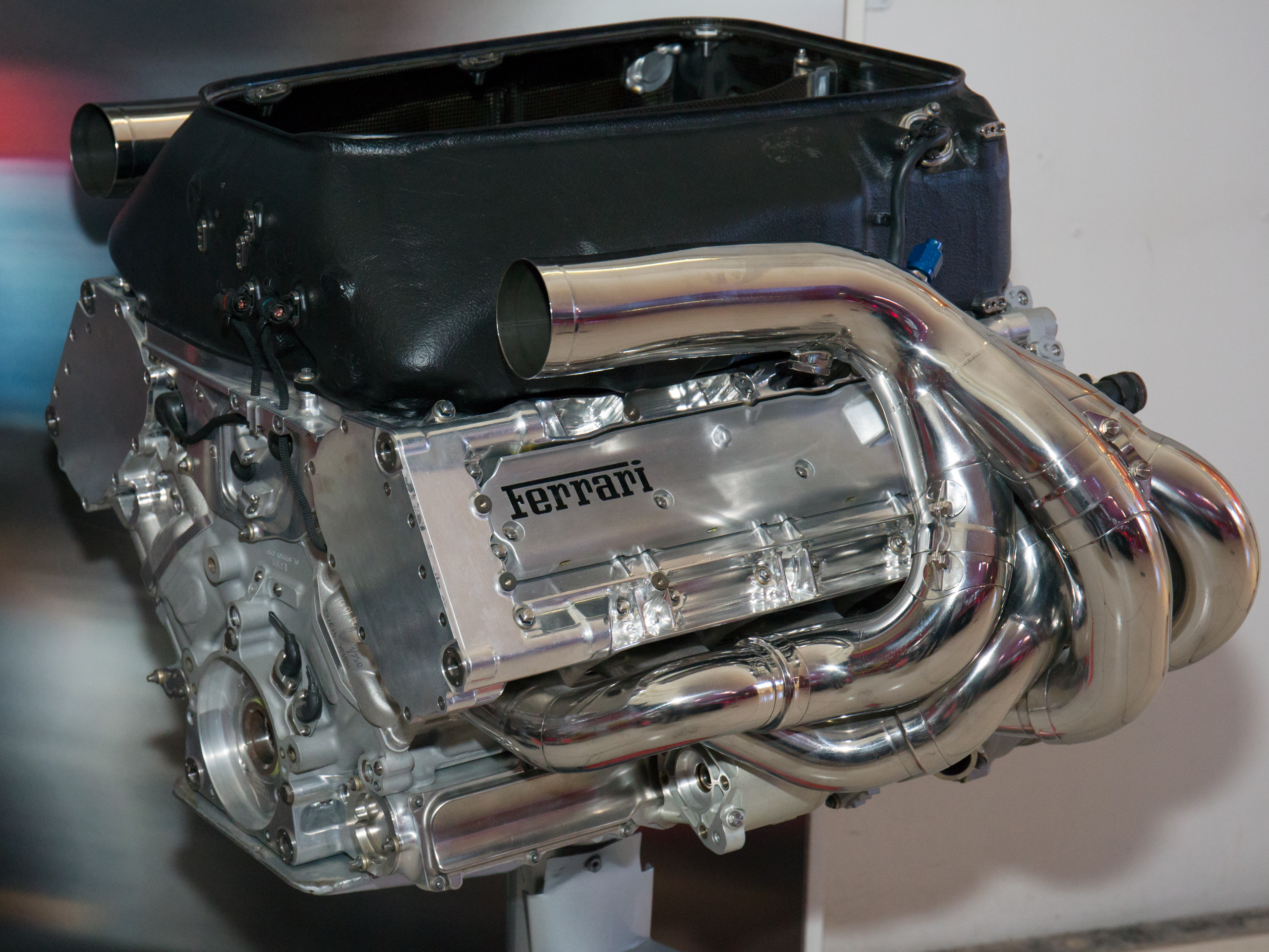 Ferrari Tipo 056 engine (2008) of the Ferrari F2008